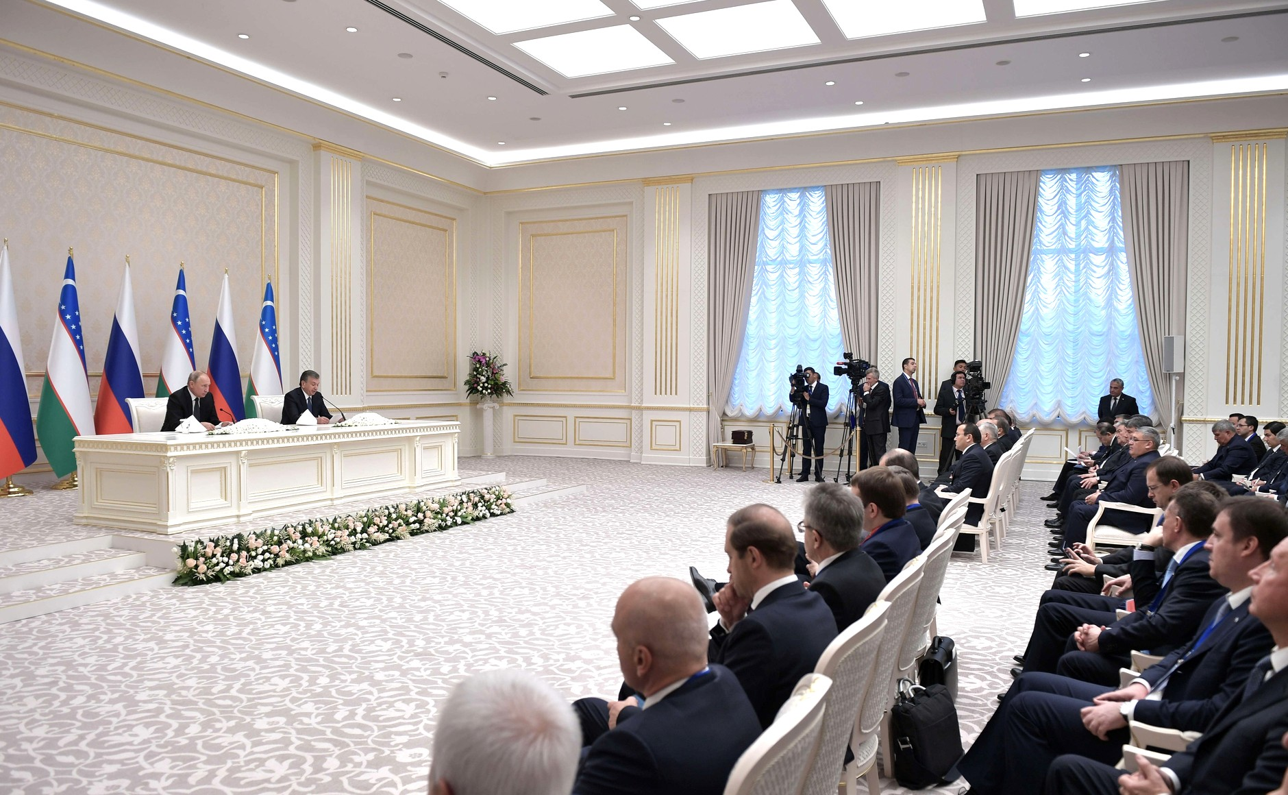 Vladimir Putin had talks with President of Uzbekistan Shavkat Mirziyoyev in Tashkent.